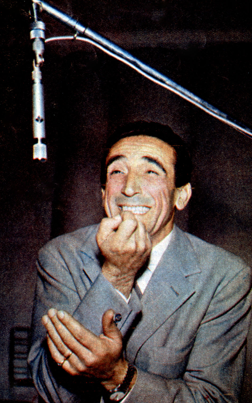 photo from Radiocorriere (1956)